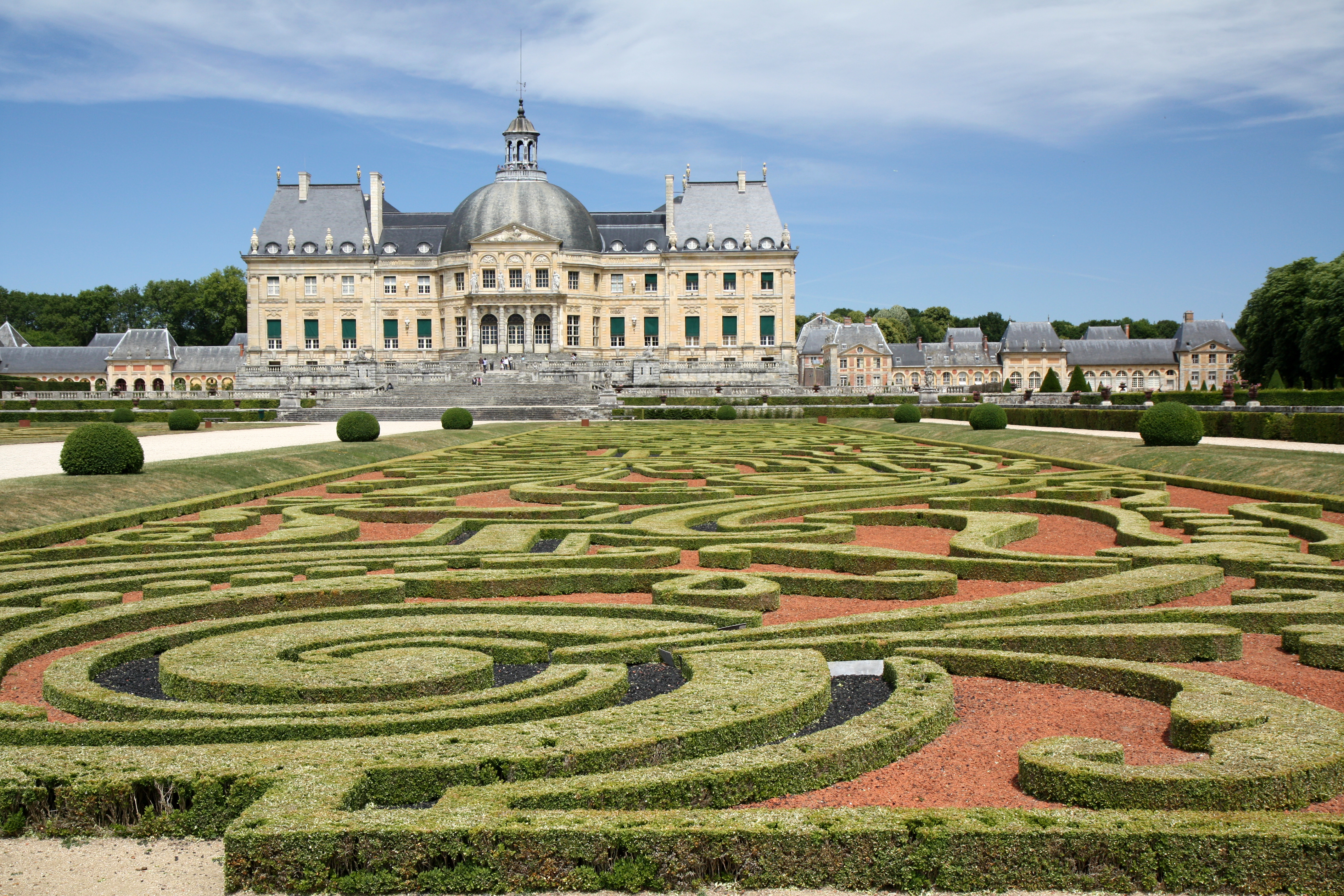 The Château de Vaux-le-Vicomte is a château located in Maincy, in the Seine-et-Marne département of France. It was built in the Baroque style, from 1658 to 1661, for Nicolas Fouquet, the superintendant of finances of Louis XIV.